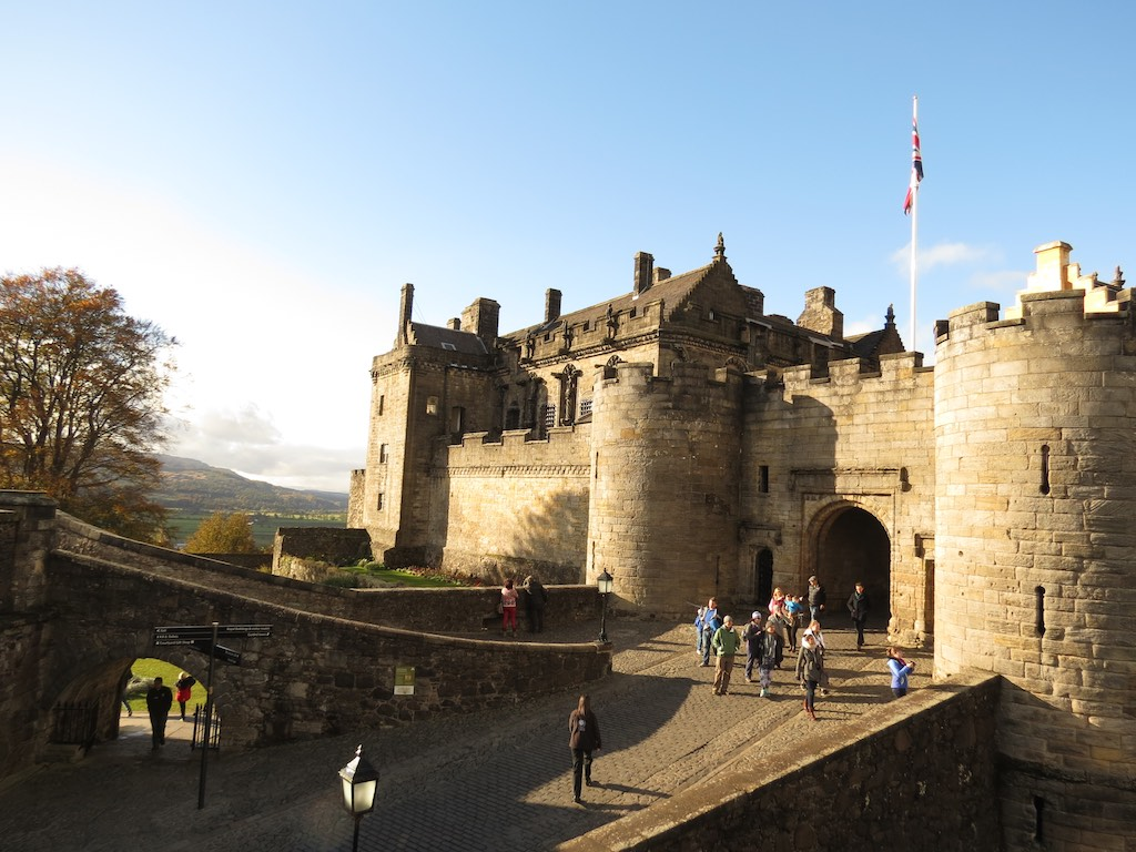 Stirling Castle